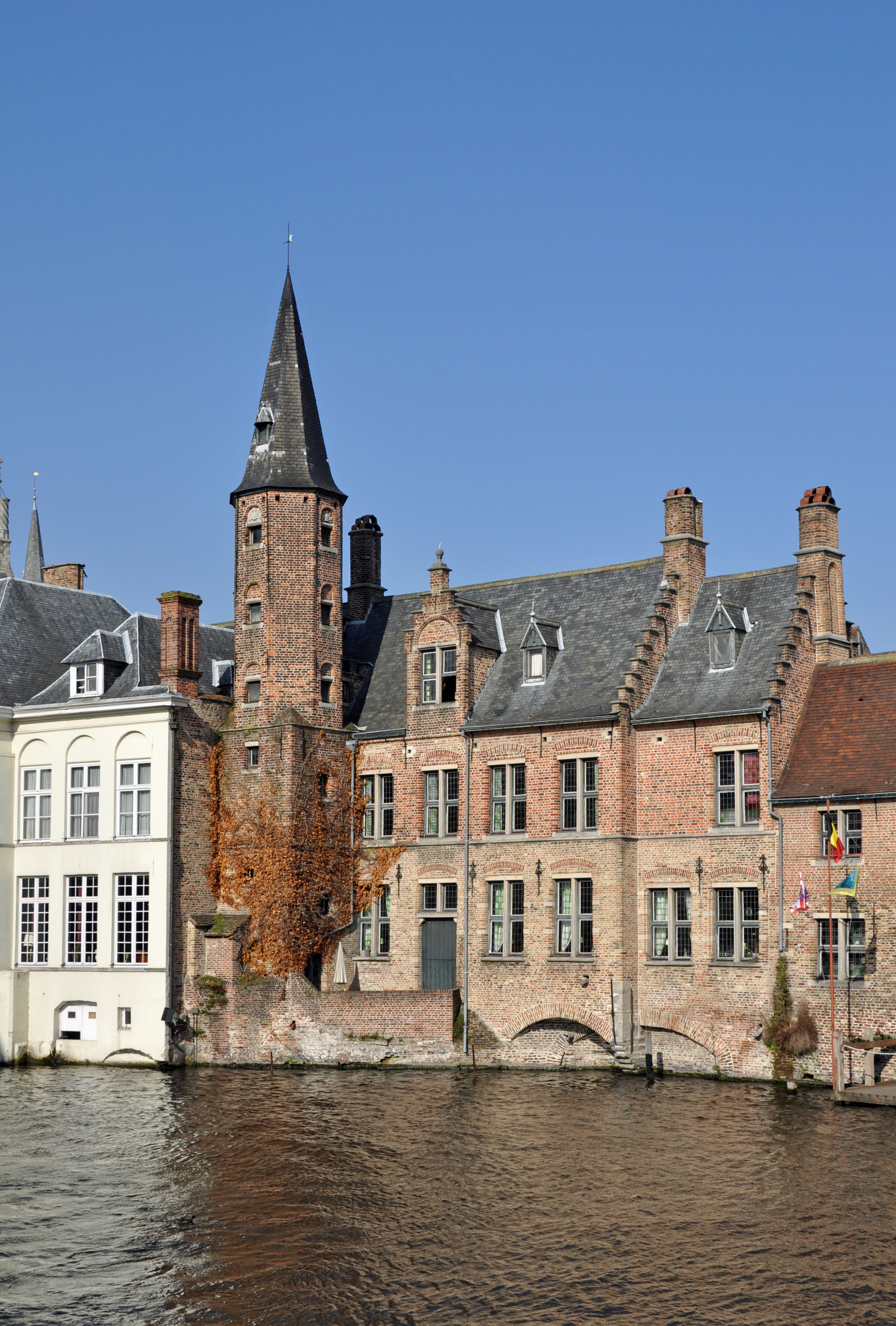 Bruges (Belgium): House of the Tanners